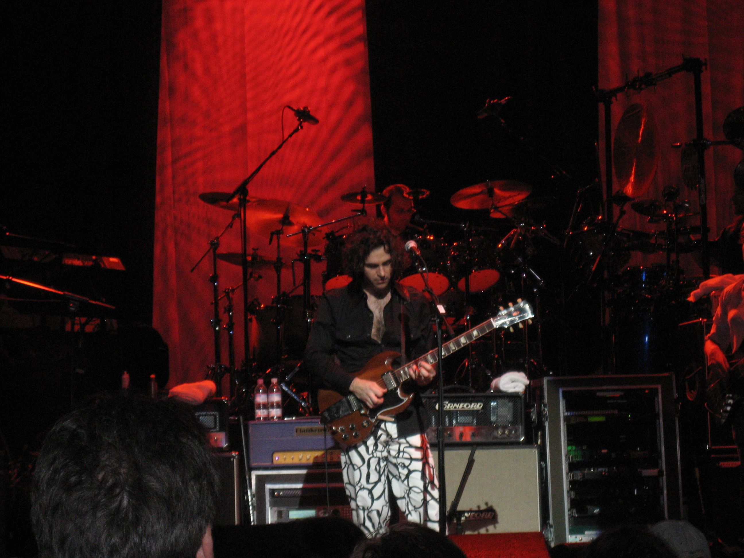 Musician Dweezil Zappa, performing on his "Zappa Plays Zappa" tour in San Francisco.